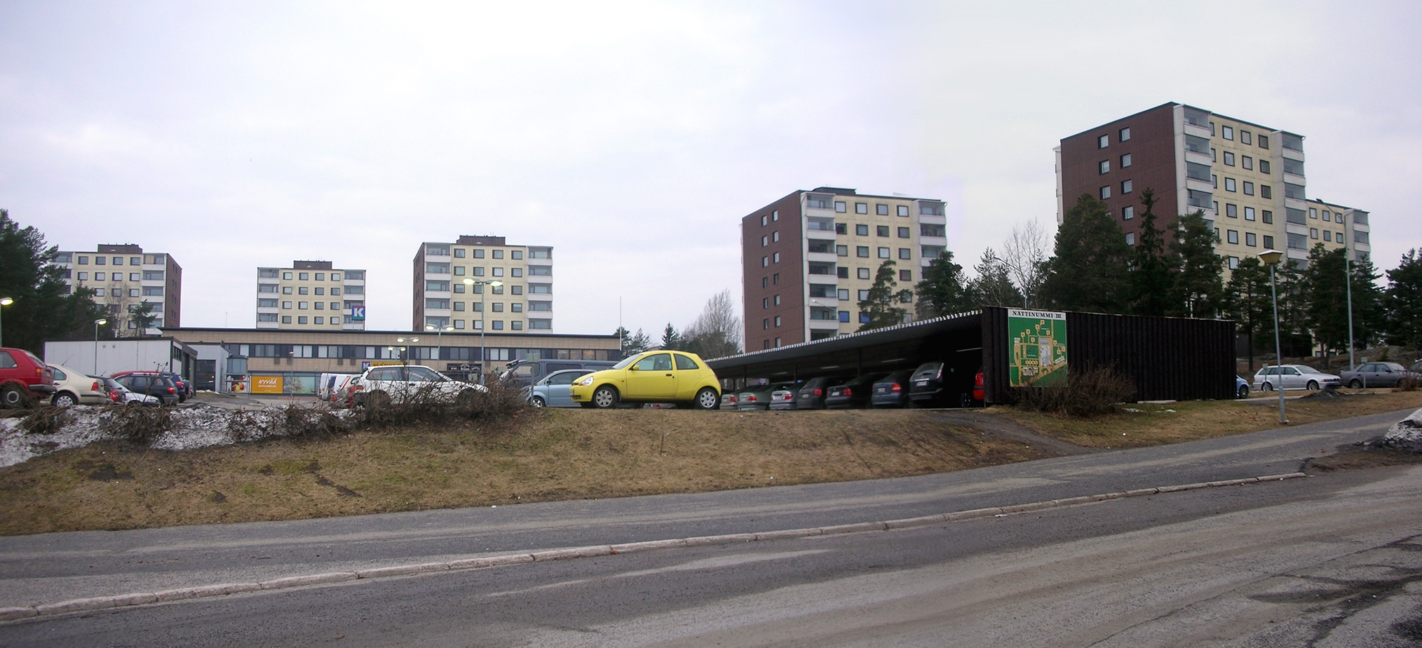 Nättinummi, Turku, Finland